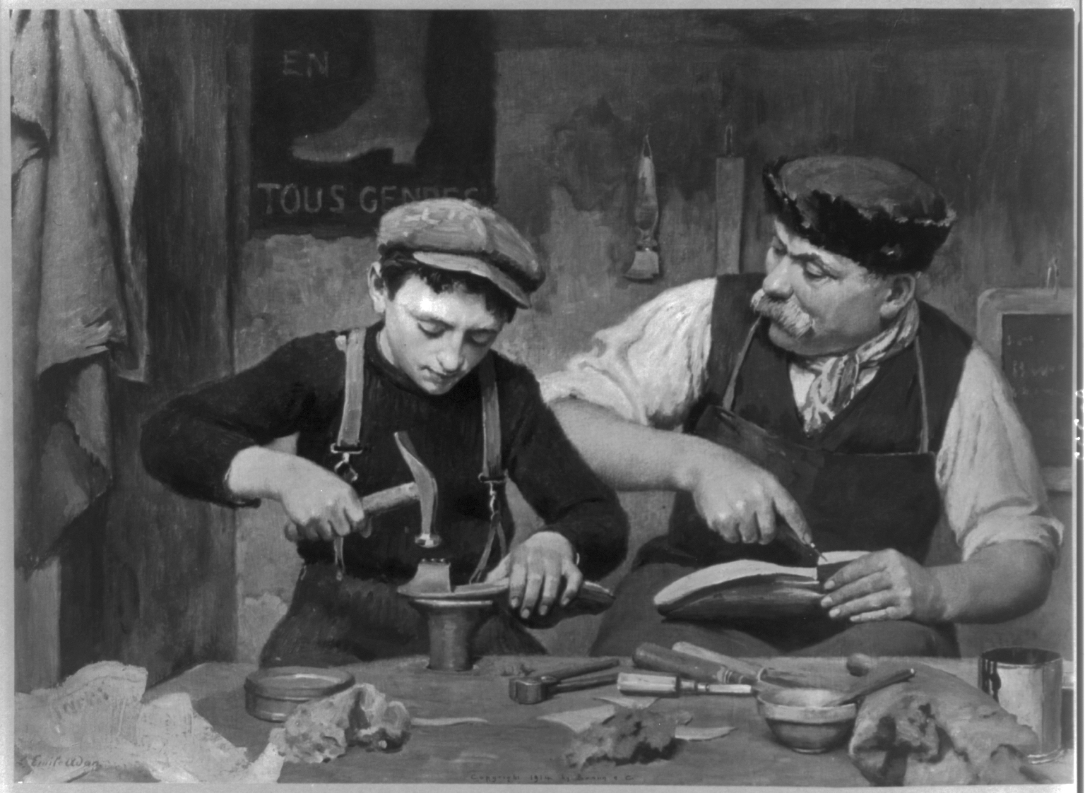 Apprentice. Man and boy making shoes.